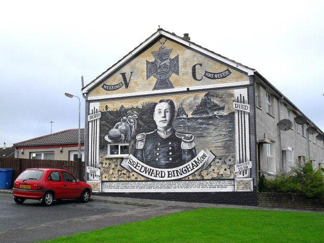 Sir Edward Bingham Mural, Kilcooley This mural was painted in September 2009. It depicts local war veteran Sir Edward Bingham O.B.E. - a sailor who was awarded the Victoria Cross for courageous actions in the Battle of Jutland. Located at Orlock Gardens in Bangor's Kilcooley Estate.